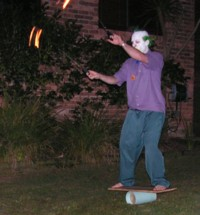 douglas courtney (my grandfather), on net because my dad put it there but not telling where.